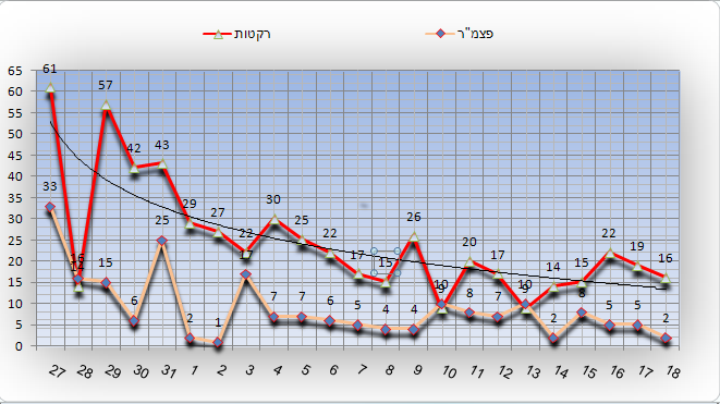 Rocket And Mortar Hits At Israel-Gaza_conflict